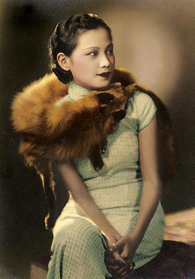 Yu Liqun